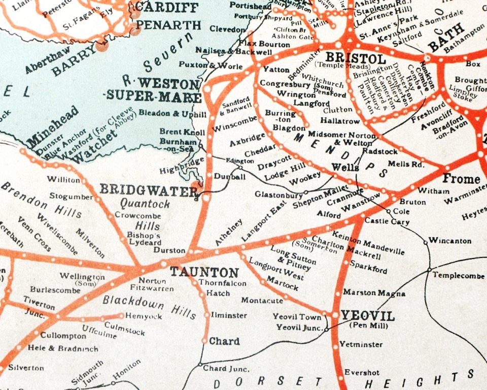 The Great Western Railway system in Somerset, England.